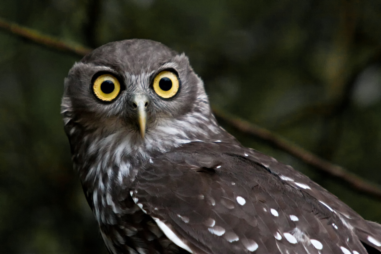 The Barking Owl Ninox connivens is a nocturnal bird species native to mainland Australia and parts of Papua New Guinea. The presence of these owls is usually revealed by their barking calls.